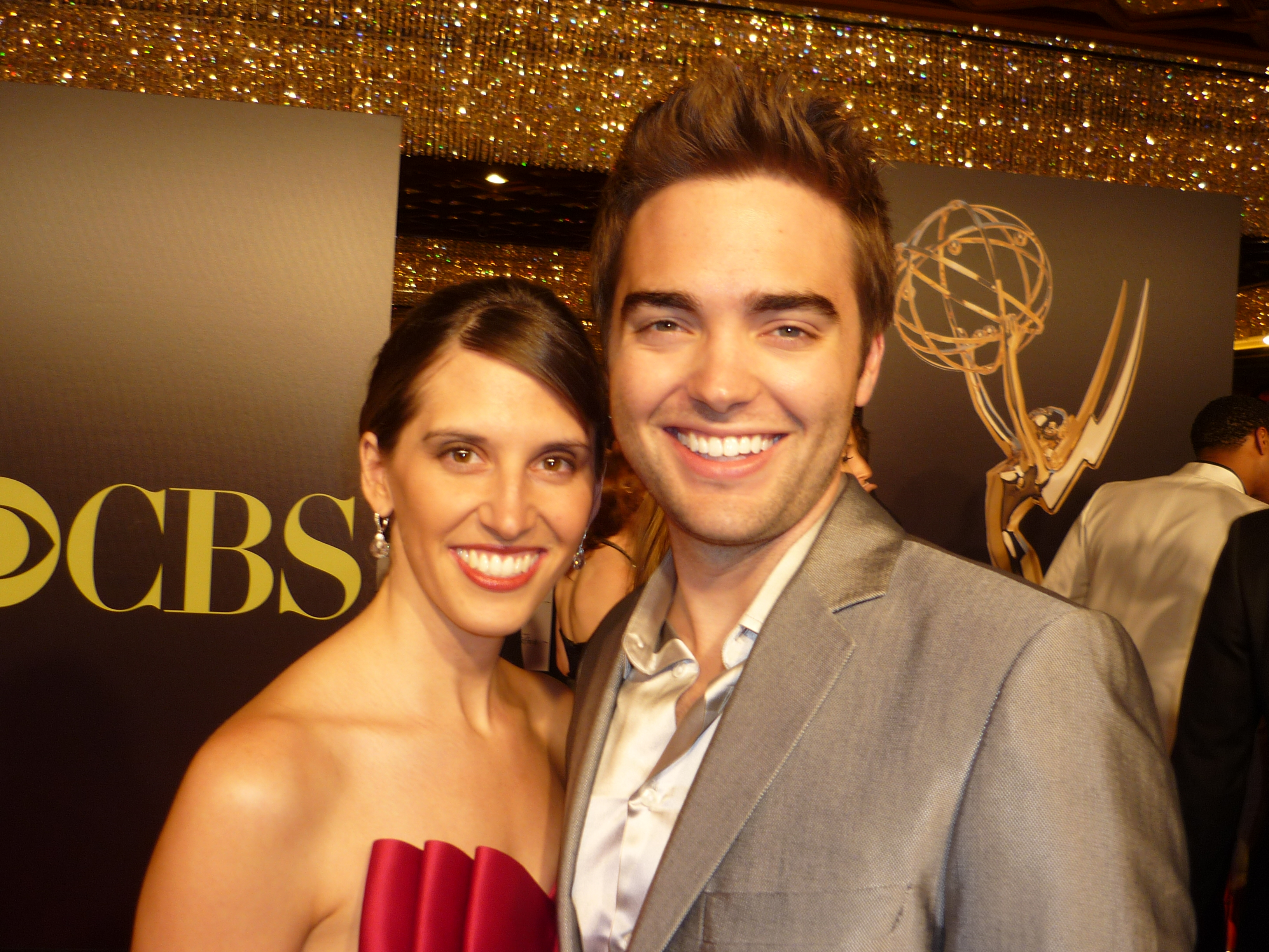 Actor Drew Tyler Bell and wife Sarah Grunau at 2010 Daytime Emmy Awards.